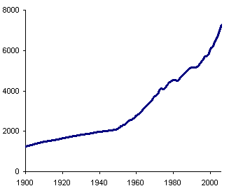 Real world GDP per capita 1900–2006 in dollars. Interpolated from data for 1900, 1913, 1940 and annual data after 1950.